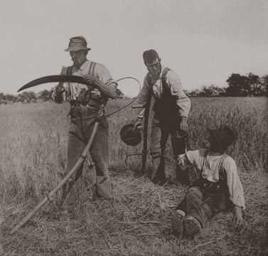 TITLE ON OBJECT: In The Barley Harvest photogravure print 23.6 x 24.4 cm.